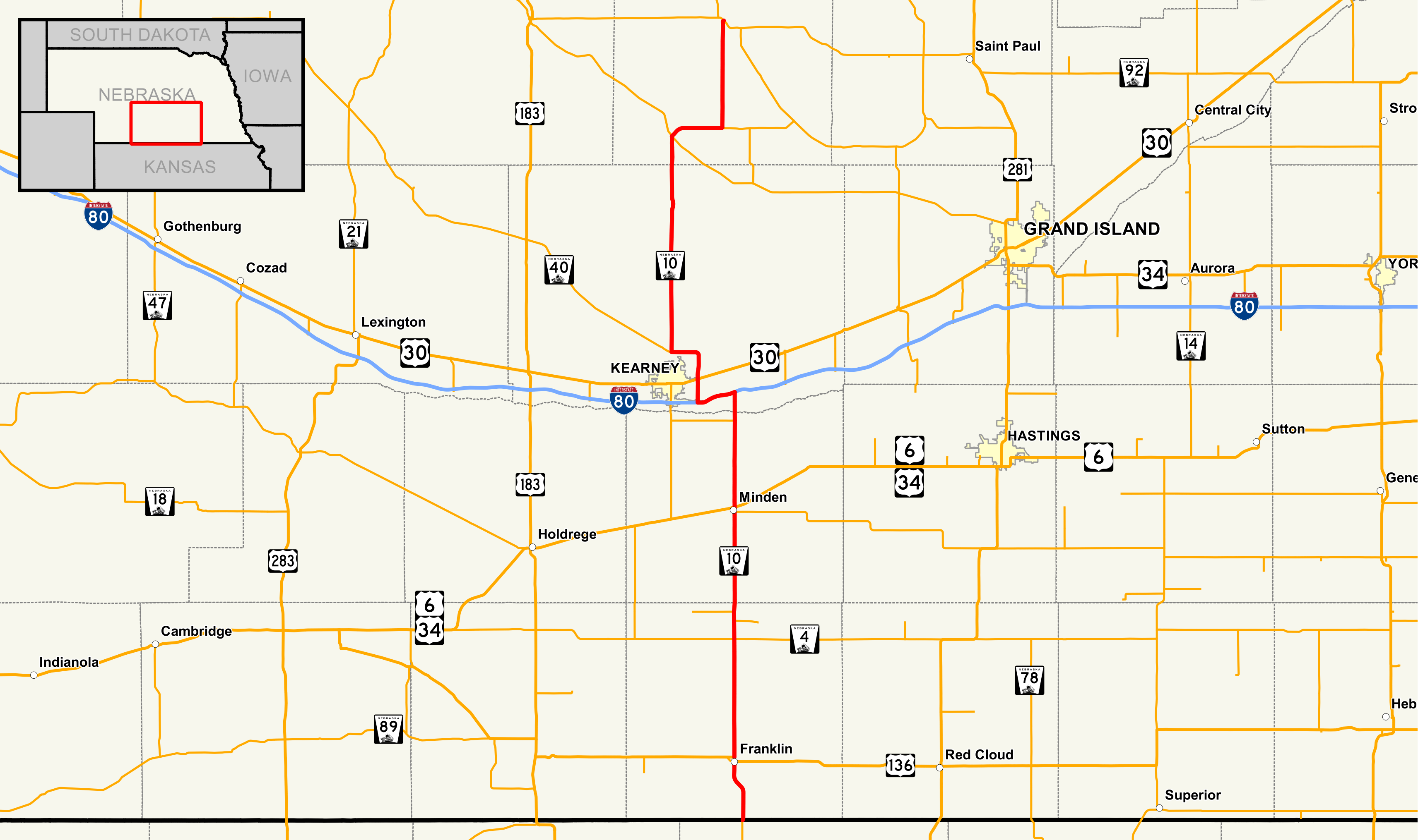 Map of Nebraska Highway 10 Data Sources: Nebraska Highways - - Dec 2016 Nebraska County Boundaries - - Dec 2016 Nebraska City Boundaries - - Dec 2016 This PNG graphic was created with QGIS